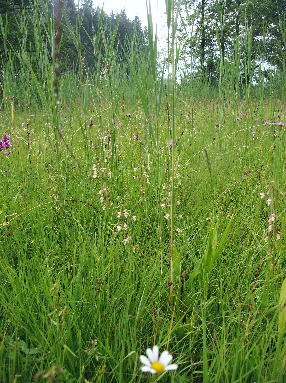 Epipactis palustris, habitat - Virngrund, Baden-Württemberg, Germany